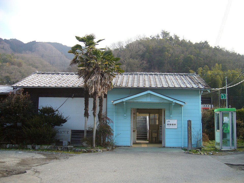 West Japan Railway Company Kishin Line Nishi-Kurisu Station